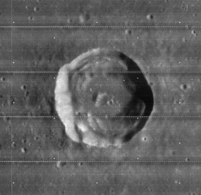 Ross lunar crater - LO4-085-h2 image